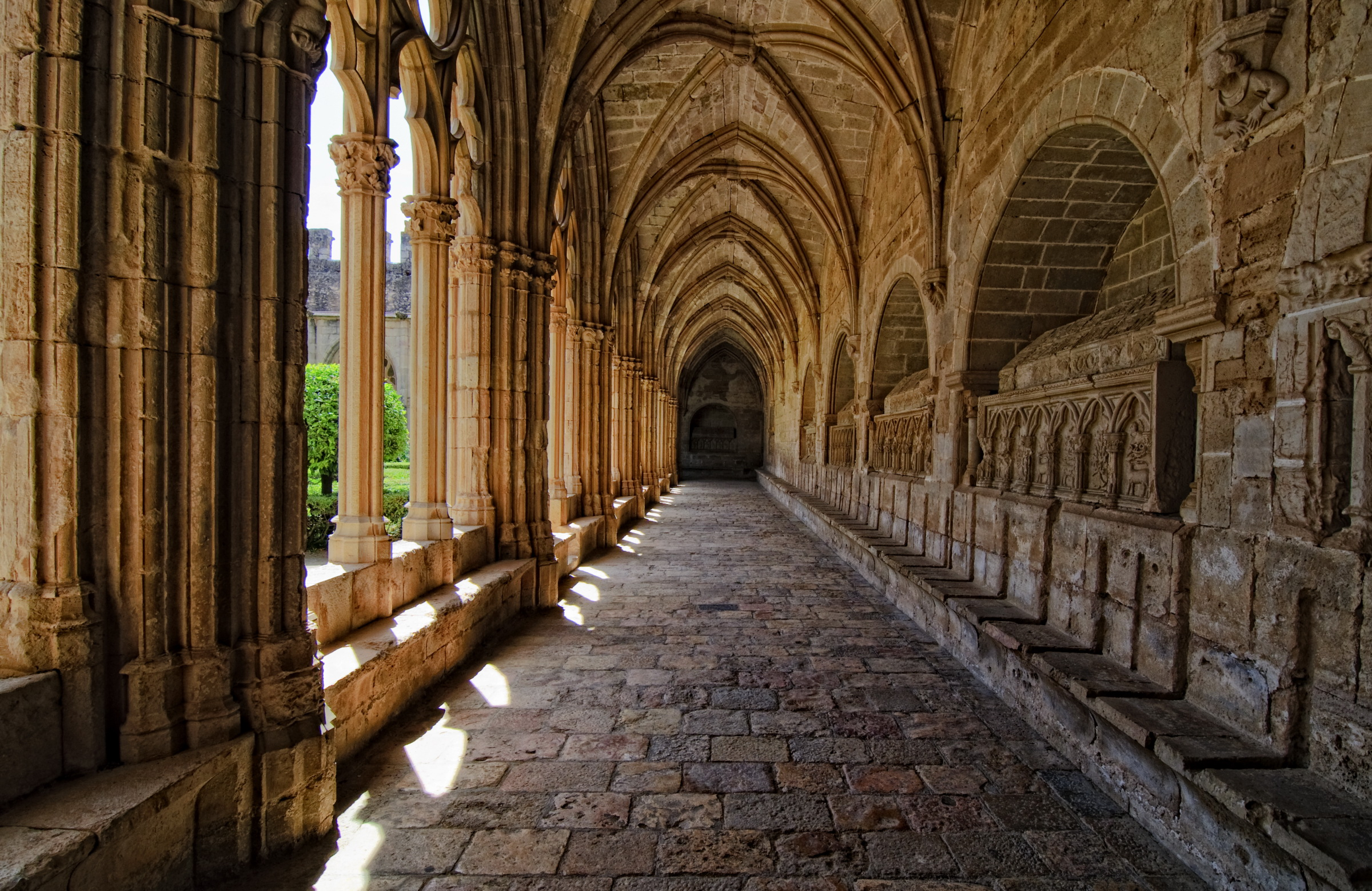 Cloisters of Monestir de Santes Creus